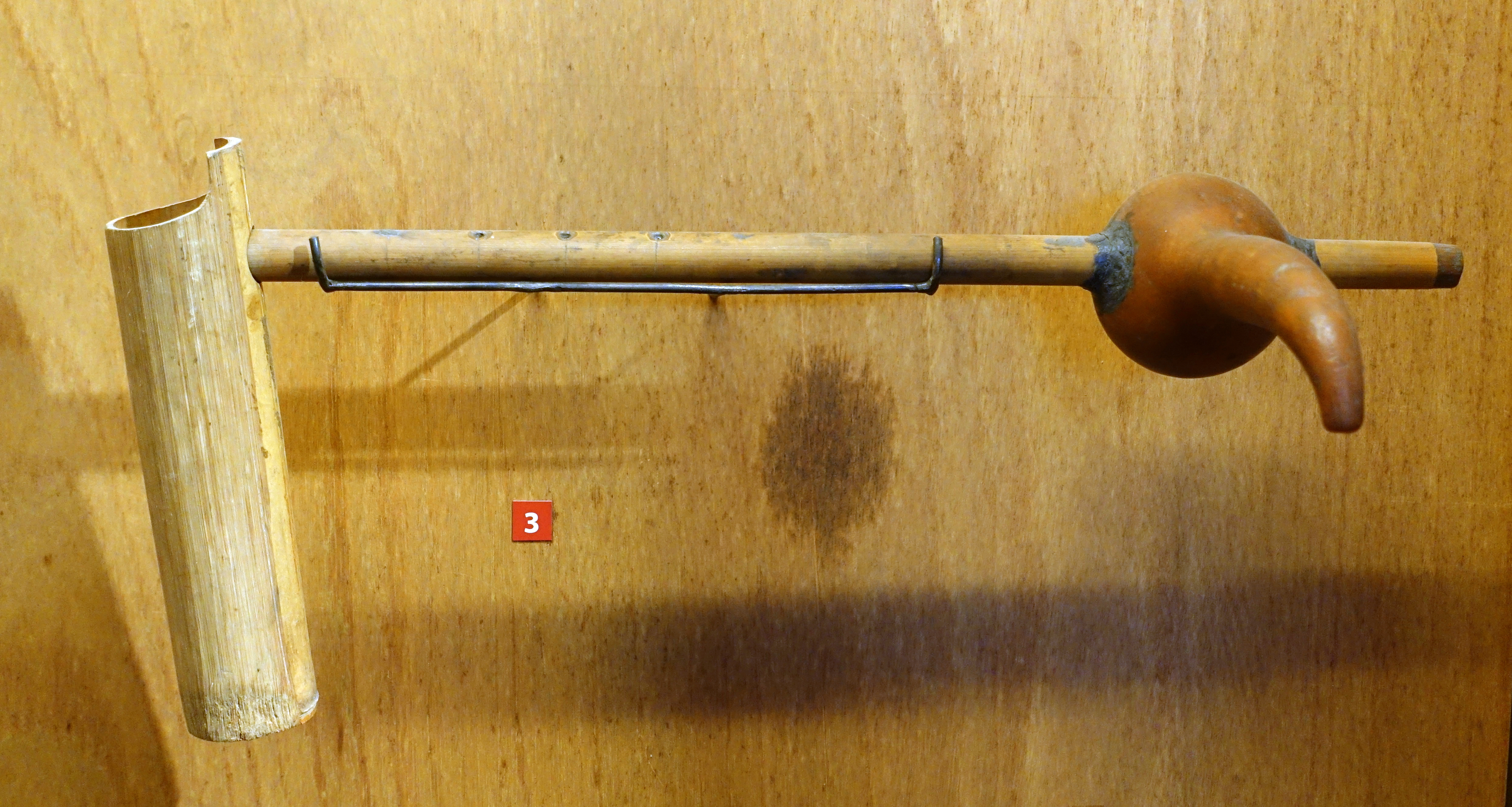 Exhibit in the Vietnam Museum of Ethnology - Hanoi, Vietnam.